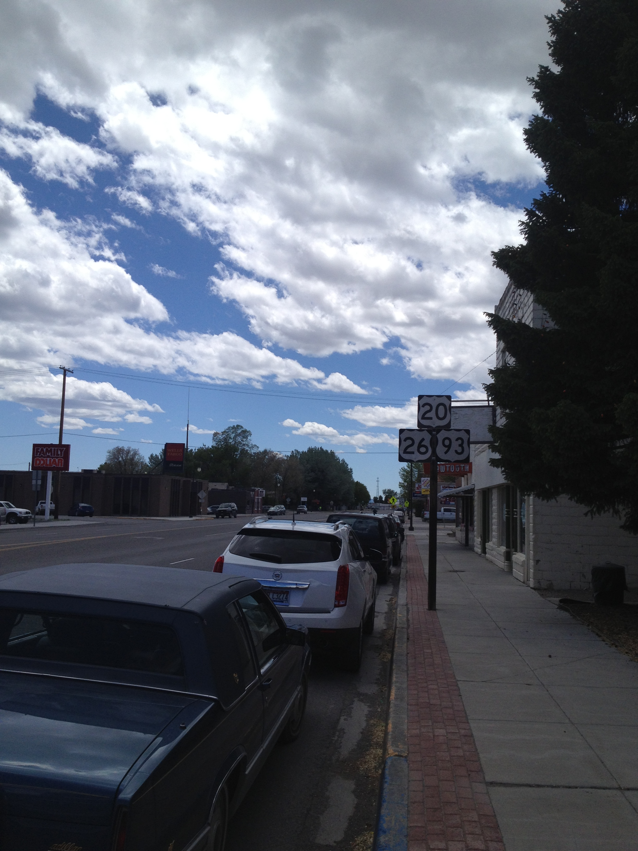 Picture of Arco, Idaho.